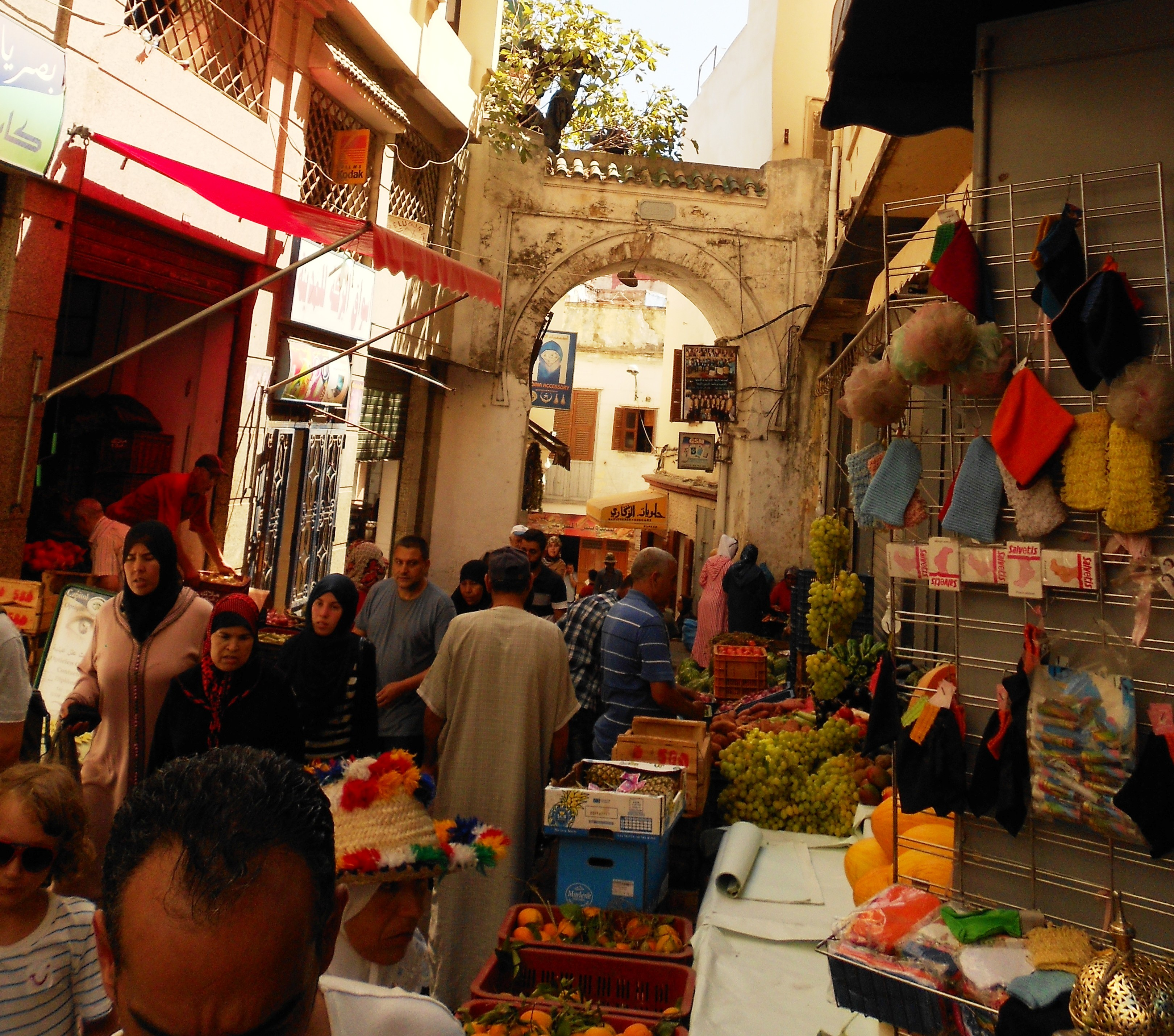 Market stands in the Medina of Tangier, Morocco